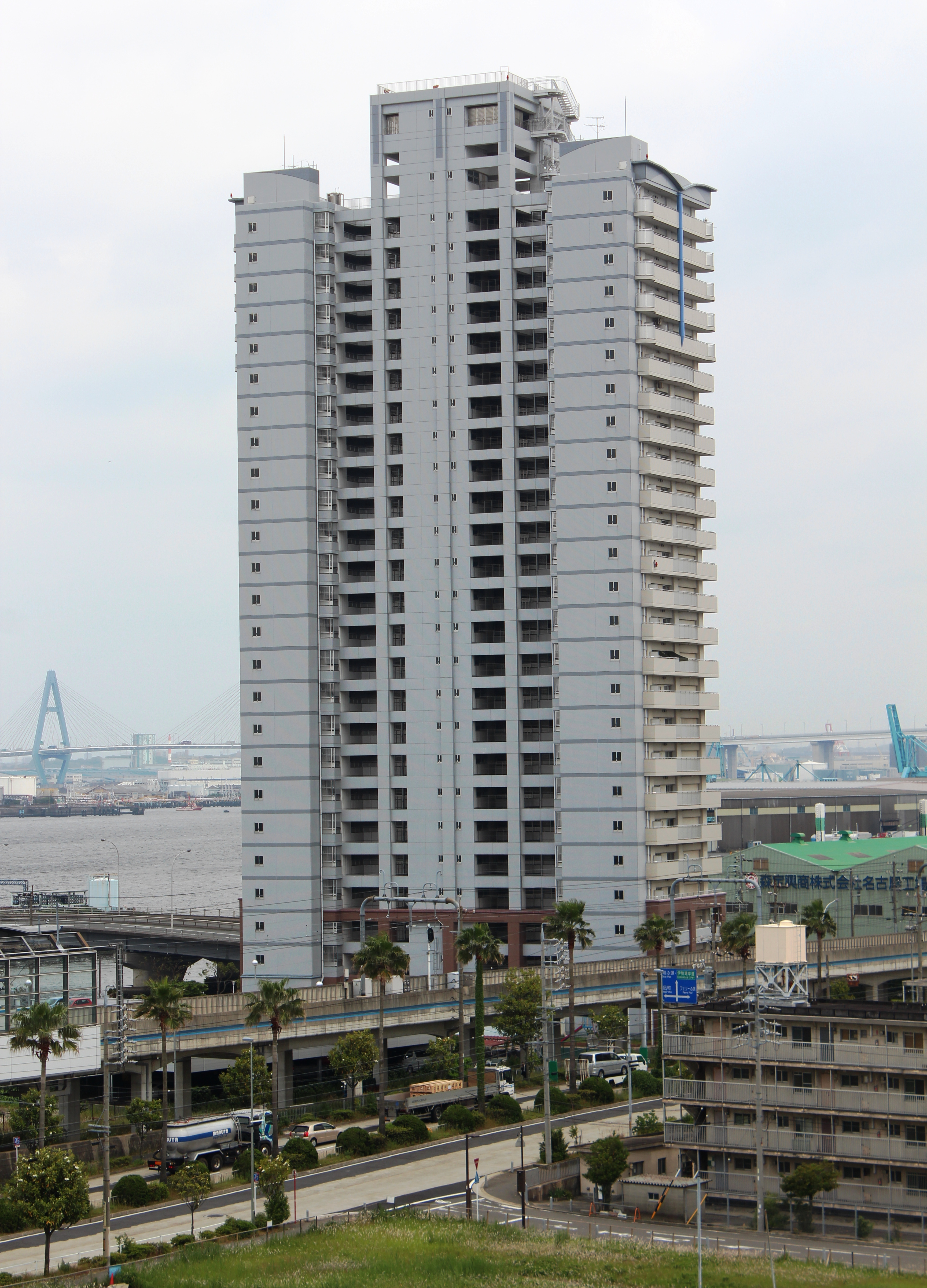 Cityfamily Kamonoura in Minato, Nagoya, Aichi prefecture, Jaopan.